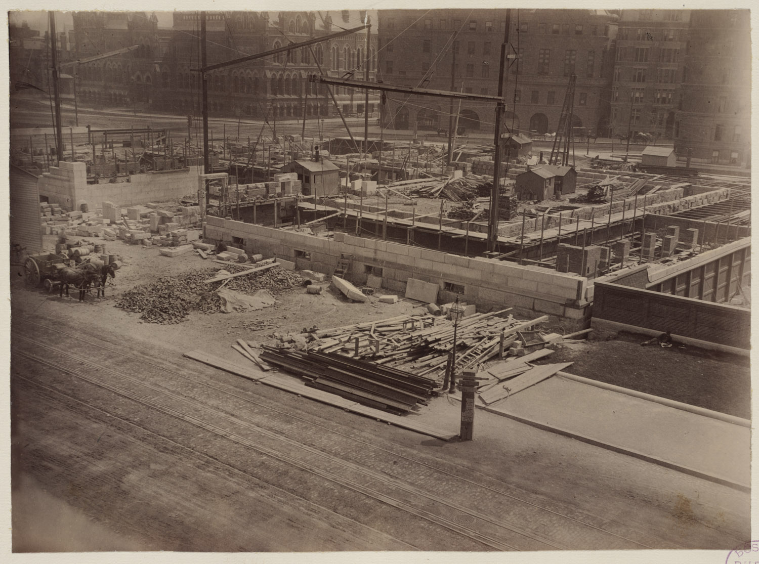 Accession No.: 06_03_000065 Title: Site from Boylston Street, construction of the McKim Building Caption: 62 Creator: Stevens, Edward, photographer Date: 1889-04-24 Format: photograph albumen silver print Description: Oblique view showing the beginning of the construction of the exterior wall along Boylston Street and the foundation under the courtyard. Photo No. 62 by Edward Stevens, Clerk of Works. Subject: Boston Public Library Public libraries McKim building Back Bay (Boston, Mass.) Copley Square (Boston, Mass.) McKim, Mead & White Parent Work/Relation: Public library building Copley Square : photographs of progress of the work August, 1888 to Dec. 31 1889 BPL Department: Trustees' Library Rights: public domain